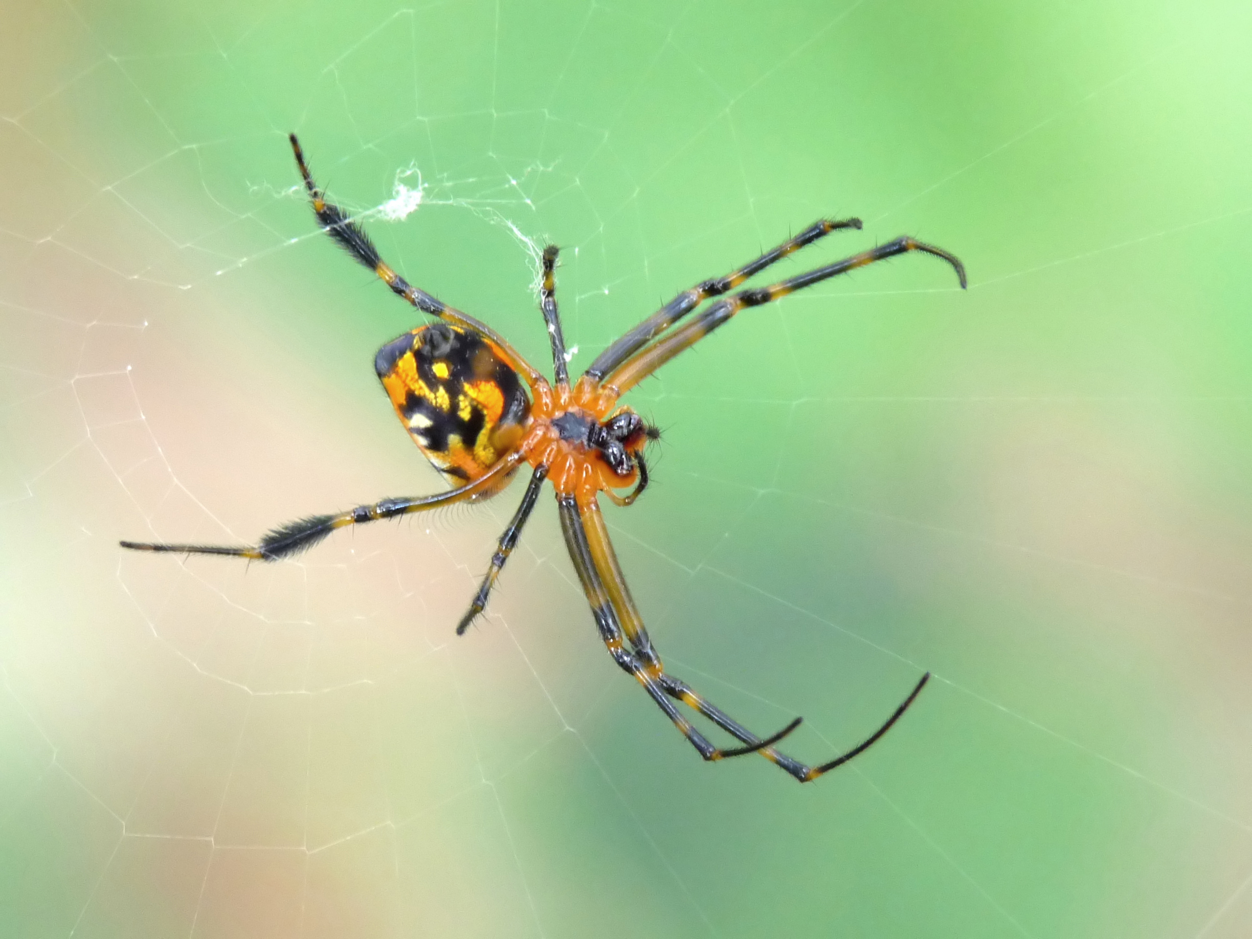 Opadometa fastigata, Pear-Shaped Leucauge, is a Long-jawed orb weaver (Tetragnathidae family), found in India to Philippines, Sulawesi. They are elongated spiders with long legs and chelicerae. They are orb web weavers, weaving small orb webs with an open hub and few, wide-set radii and spirals. The webs have no signal line and no retreat. Members of the species Leucauge silvery or golden spots on the abdomen. The web is a large horizontally-placed orb structure with a diameter of more than a metre. The entire web is often suspended by several long strands of silk attached to branches and leaves nearby. This species is separated from other Leucauge spiders by its pear-shaped abdomen and its unique fourth leg. In addition to the two rows of curved hairs (characteristic of Leucauge), this leg also has a thick brush of spines which are not present in most other species of Leucauge.